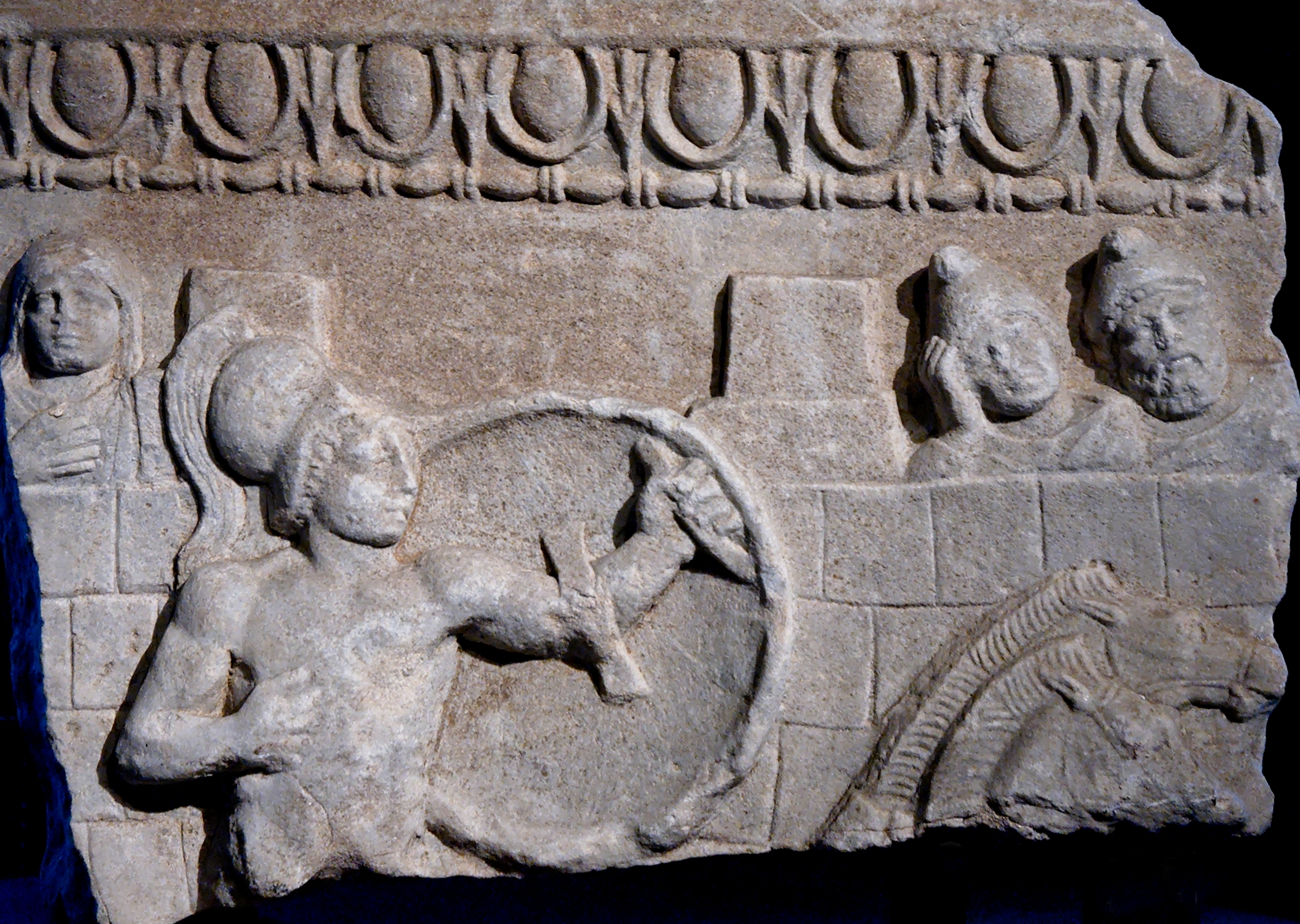 Andromache looking down from the walls of Troy at Achilles dragging Hector's corpse behind his chariot. Limestone, fragment of a sarcophagus, late 2nd century CE. From Reggio di Calabria. Stored in the Museo Archeologico Nazionale of Reggio di Calabria.